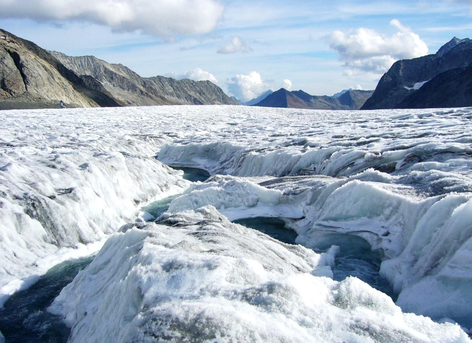 River on the Aletsch Glacier, Bernese Alps